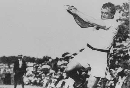 John Flanagan during 1904 Summer Olympics